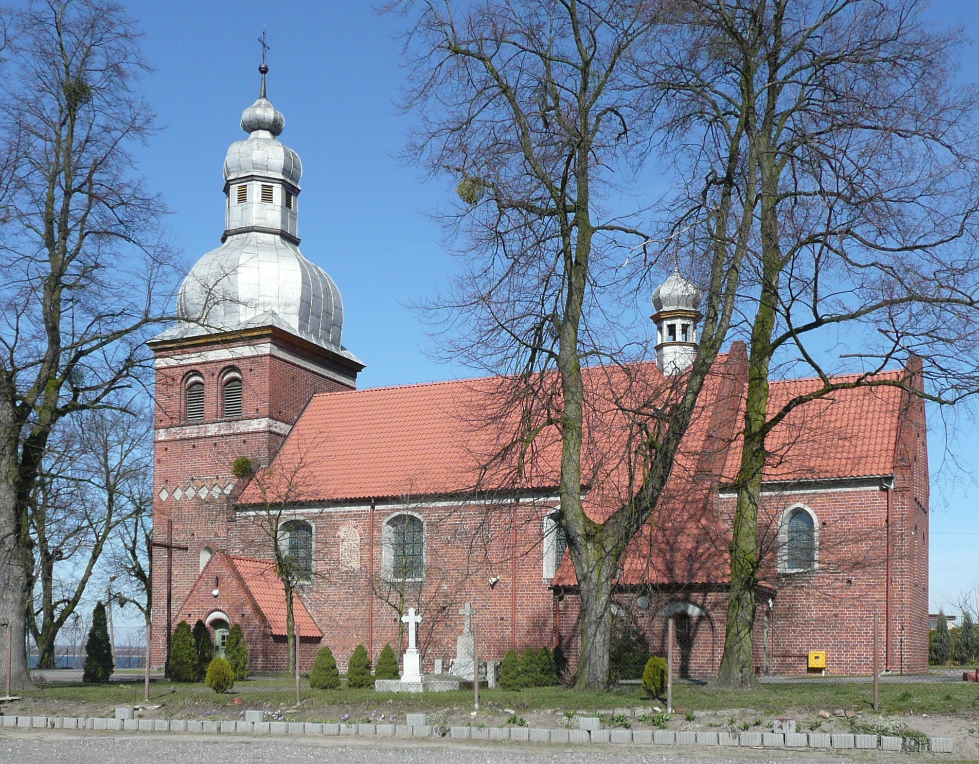 Saint Martin church in Żnin, Poland, incorporated village of Góra